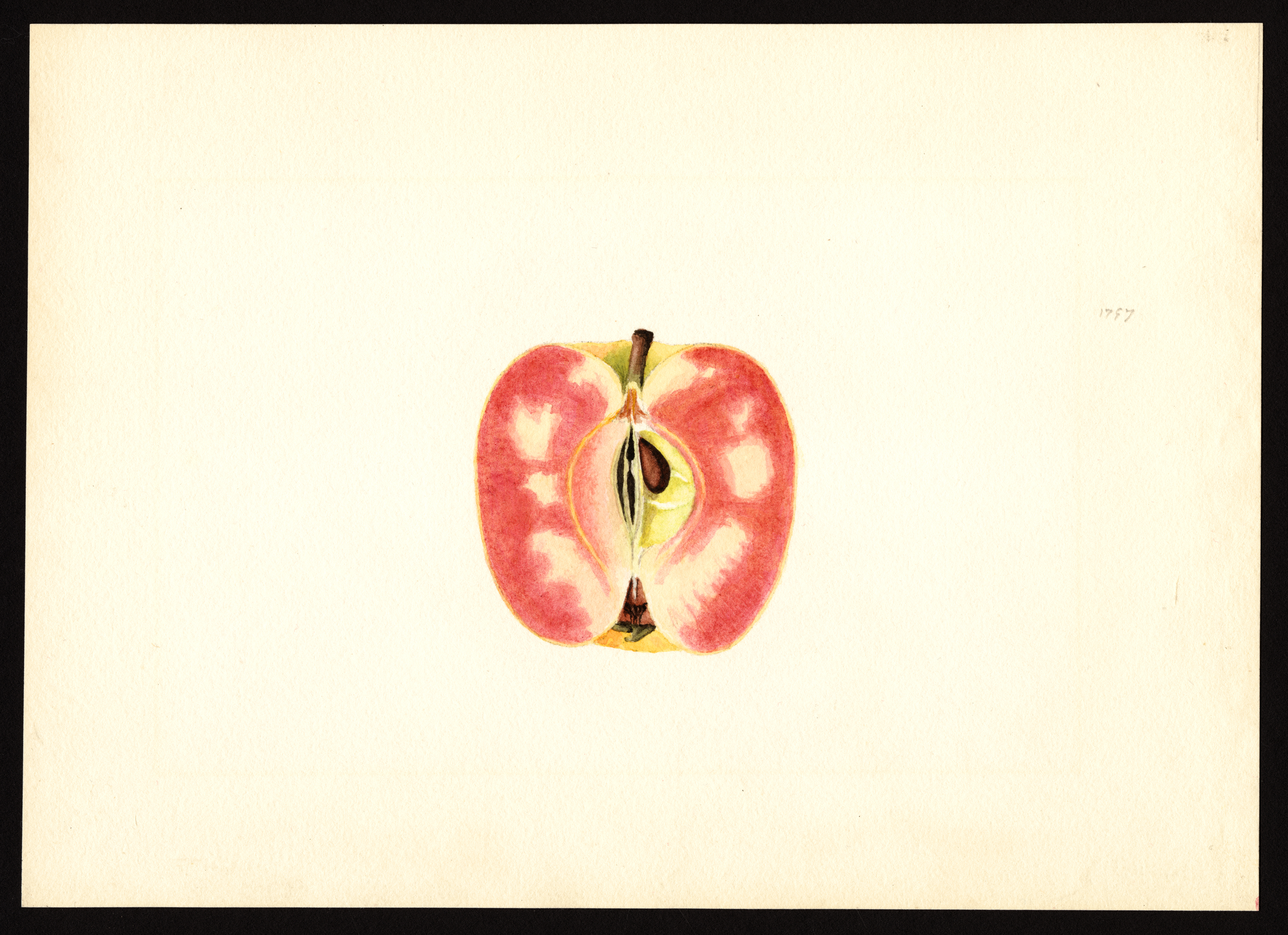 Image of the Surprise variety of apples (scientific name: Malus domestica), with this specimen originating in Willamette Valley, Oregon, United States. Source: U.S. Department of Agriculture Pomological Watercolor Collection. Rare and Special Collections, National Agricultural Library, Beltsville, MD 20705.